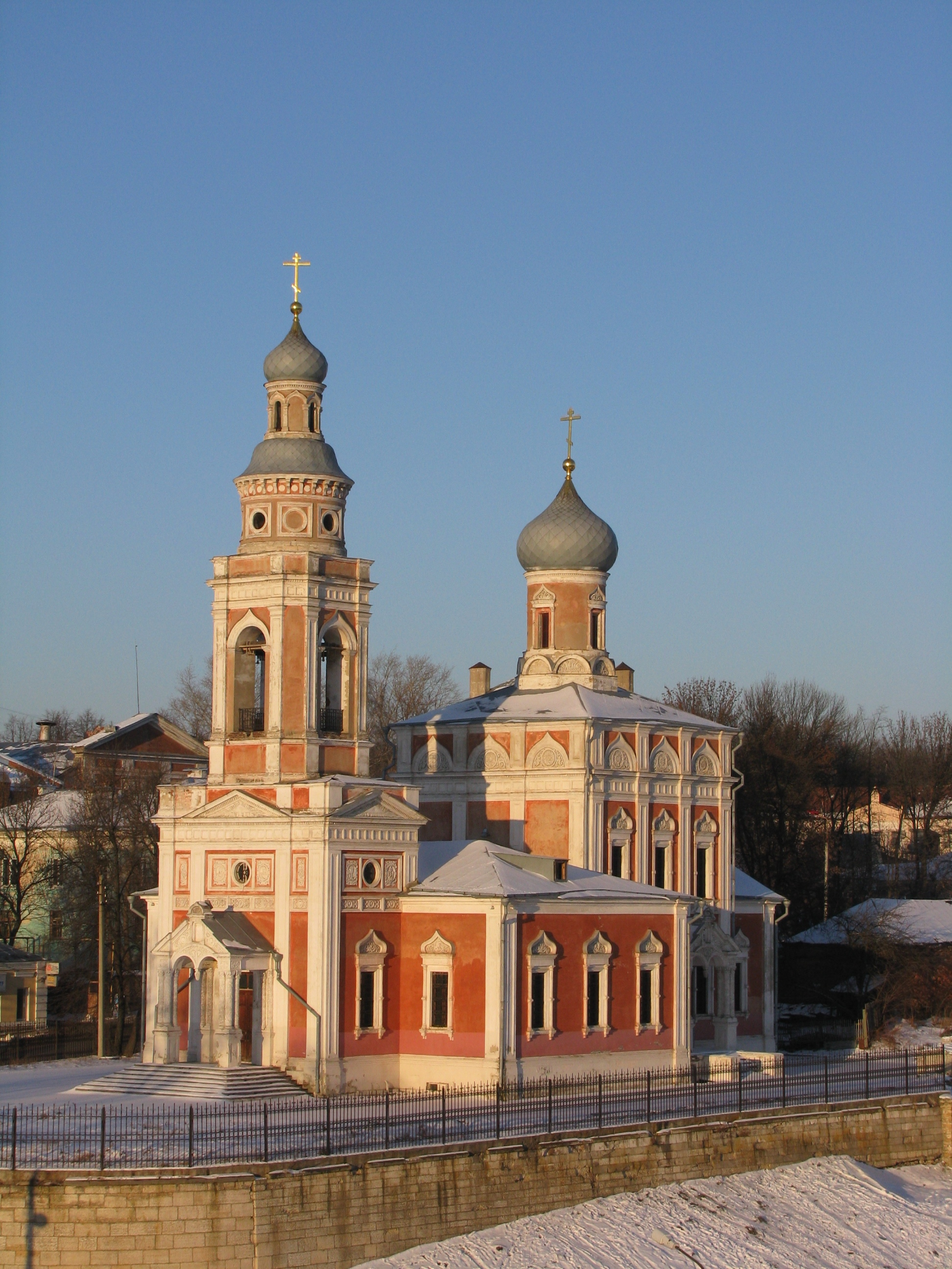 Serpukhov, Assumption Church (1744)